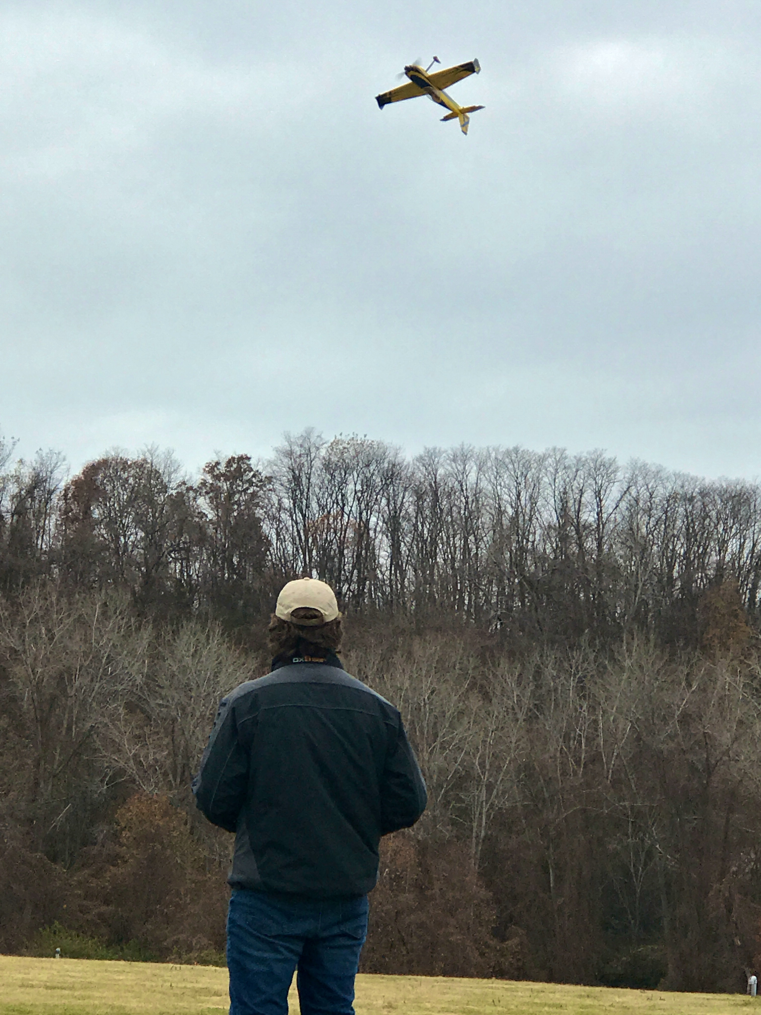 Hobbyist demonstrating inverted flight with an Extreme Flight 74" Slick, a radio-controlled airplane, at the HHAMS Aerodrome.